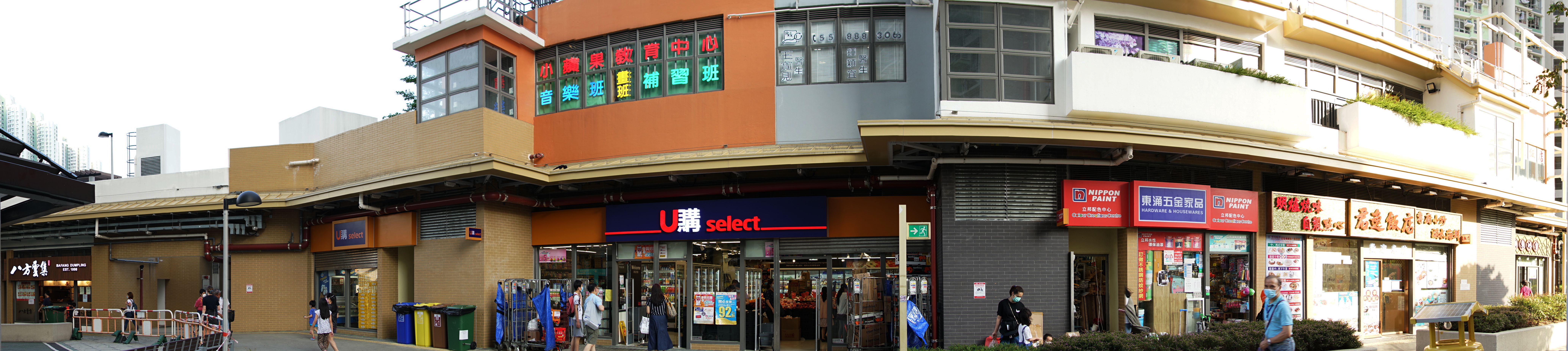 Joysmark, Hong Kong.